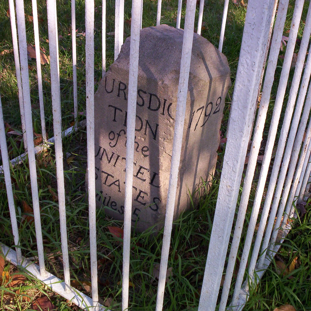 District of Columbia boundary stone NE 5, that is the stone 5 miles southeast of the northernmost corner of DC. Placed in 1791-1792 by Andrew Ellicott and Benjamin Banneker. for a map of these stones.